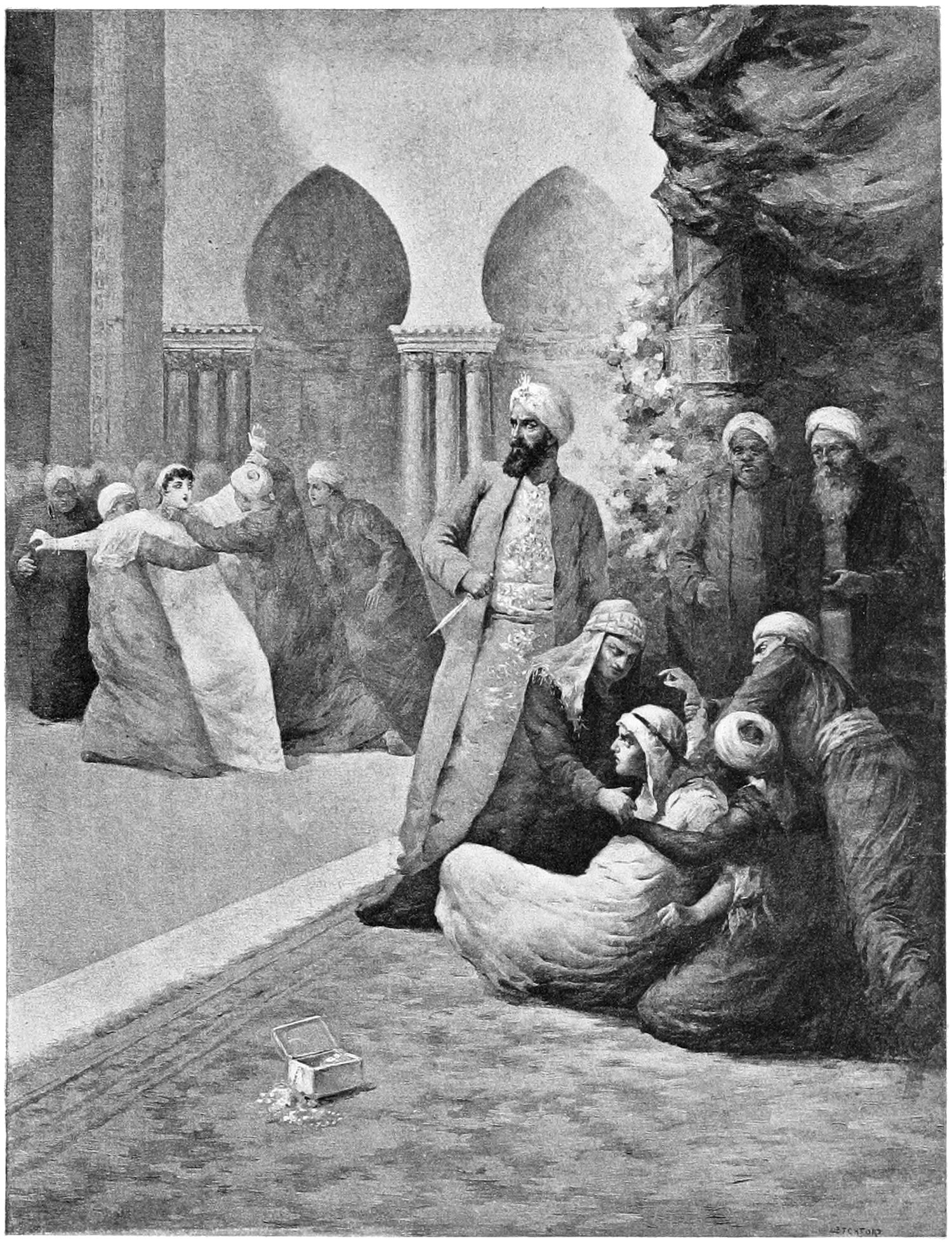 Tale of Taj al-Muluk and the Princess Dunya — The King … being violently enraged, seized a dagger, and was about to strike Taj al-Muluk with it.